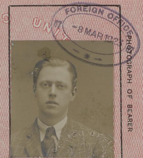 United Kingdom passport issued to travel writer Robert Byron (1905-1941). Byron is listed as an 'undergraduate' at the time of issuance. Black-and-white, 15 cm. Robert Byron Papers, General Collection, Beinecke Rare Book and Manuscript Library, Yale University, New Haven, Connecticut.